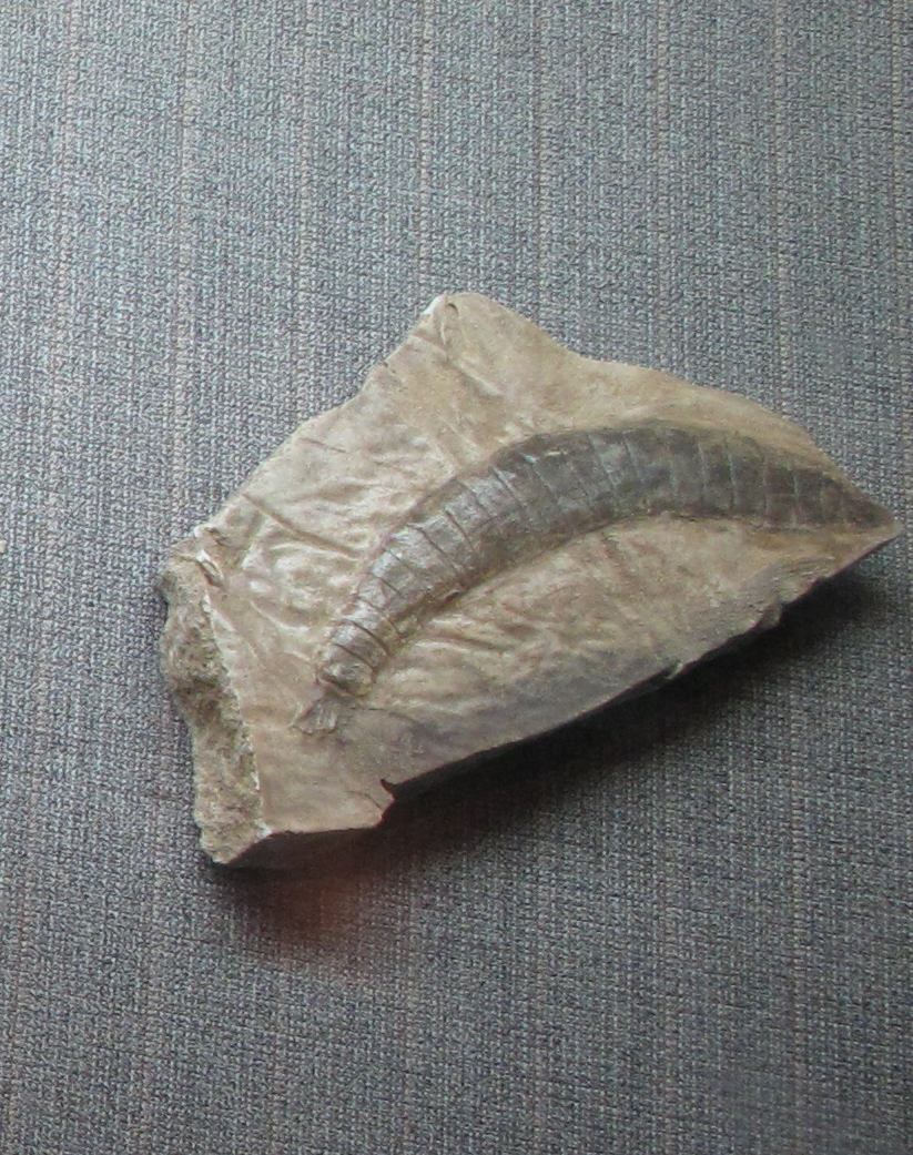 Naraoia longicaudata - Chongqing Beibei Museum